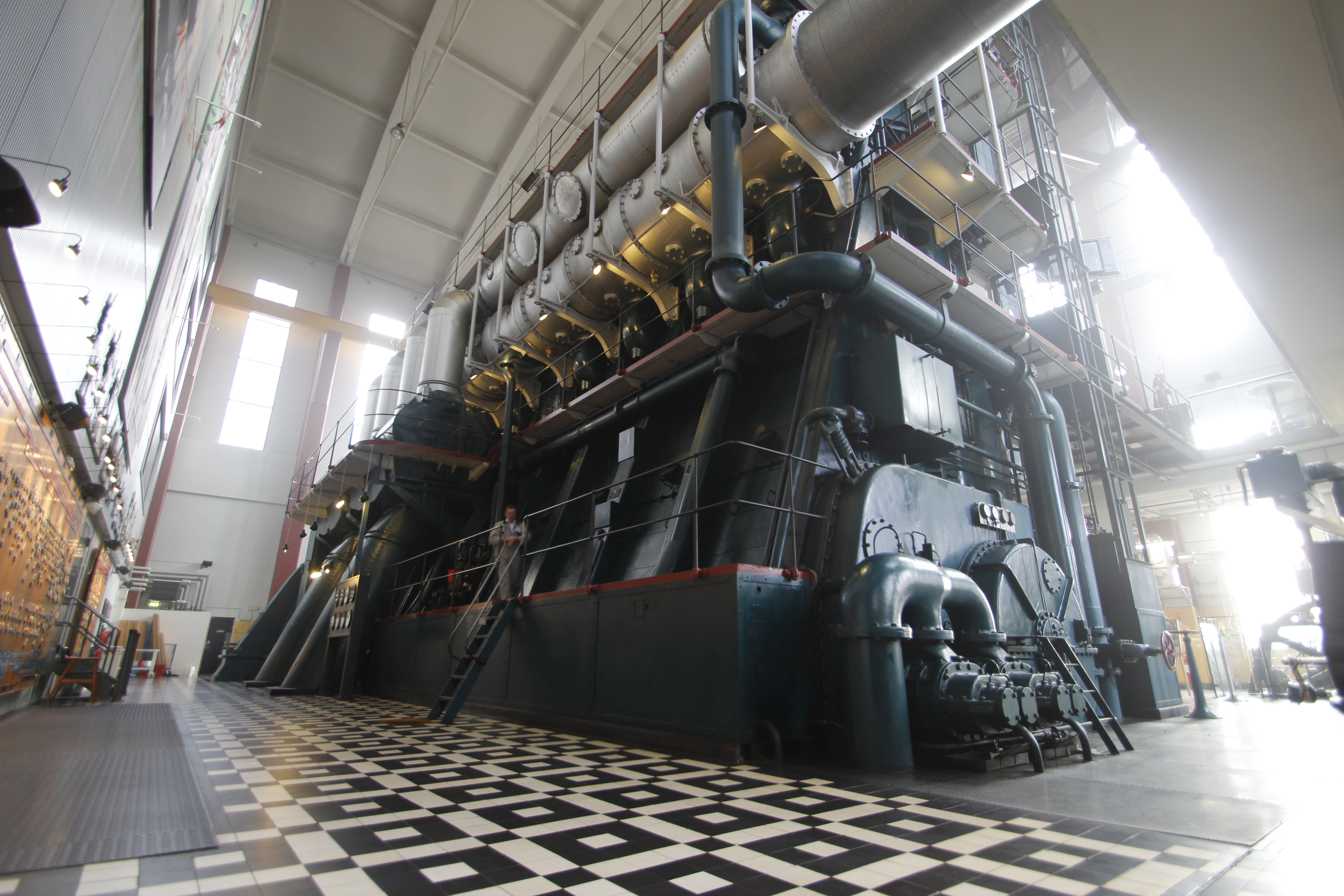 From its first trial run in 1933 and some 30 years ahead, the H.C. Ørsted engine was the largest land-based power plant engine. Up until the late sixties, the purpose of the engine was to generate electricity to Copenhagen and most of Zealand during the peak loads of the electricity grid, in the morning and at 15.00-16.00 when most people got off from work.